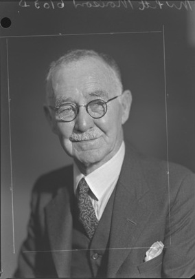 George Pitt Morison, Australian artist